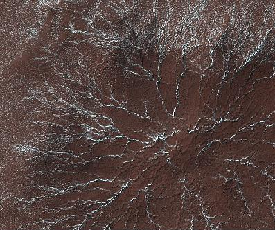 Star burst channels as seen by HiRISE. Location is 81.8 degrees south latitude and 283.8 degrees west longitude. Image was taken by HiRISE on the Mars Reconnaissance Orbiter. Photo credit is Image NASA/JPL/University of Arizona.